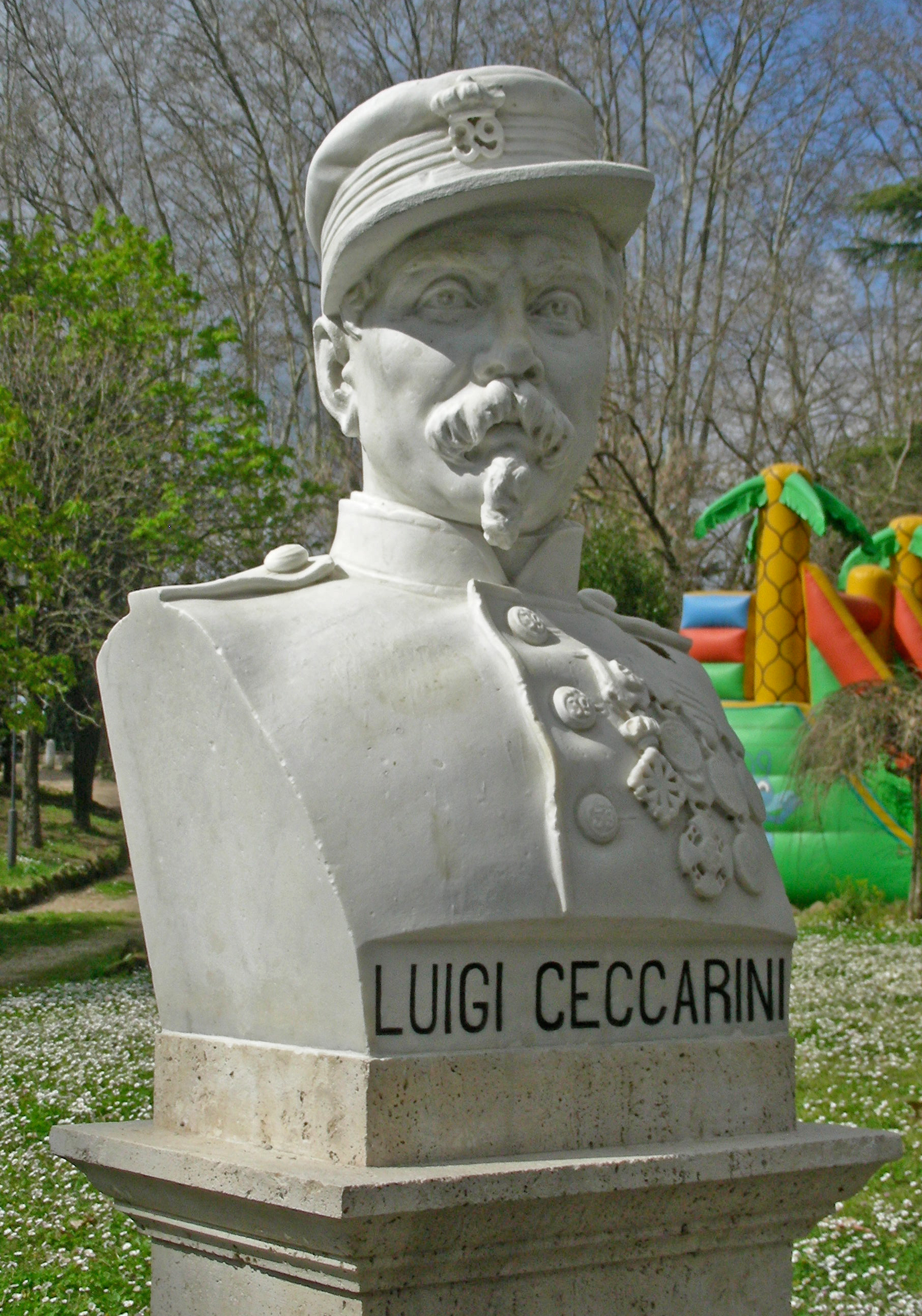 Rome, Park of Gianicolo, Bust of Luigi Ceccarini (1819-1887), by Giuseppe Trabacchi, 1893